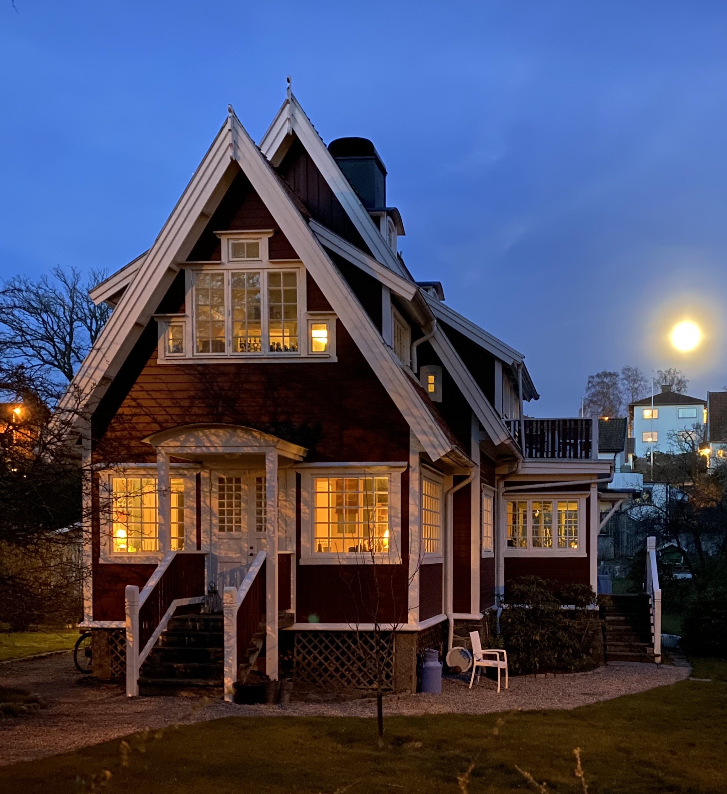 A villa in Kärralund, Örgryte in Gothenburg from the 20th century in "viking revival" style, in a style inspired by stave churches.